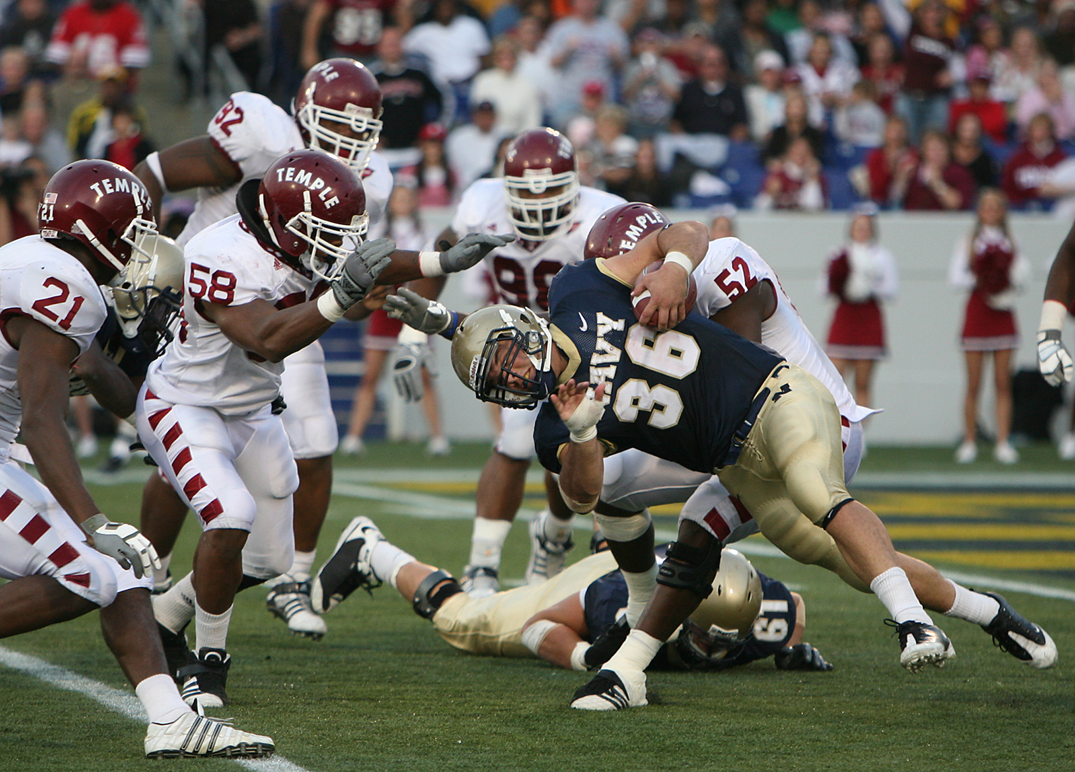 ANNAPOLIS, Md. (Nov. 1, 2008) Navy midshipman Eric Kettani (no. 36) is tackled during a college football game between the U.S. Naval Academy and Temple University at Navy-Marine Corps Memorial Stadium in Annapolis, Md. Navy won the game 33-27 in overtime to improve to a 6-3 season. (U.S. Navy photo by Mass Communication Specialist David P. Coleman/Released)